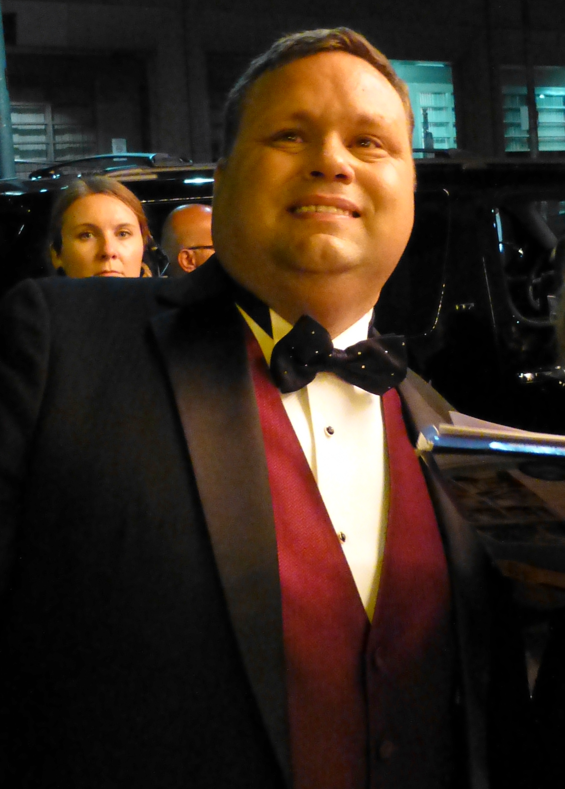 Paul Potts at the premiere of One Chance, Toronto Film Festival 2013